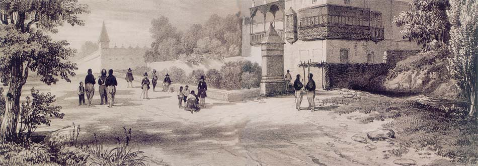 Perricholi's House in Rimac - Lima - Perú